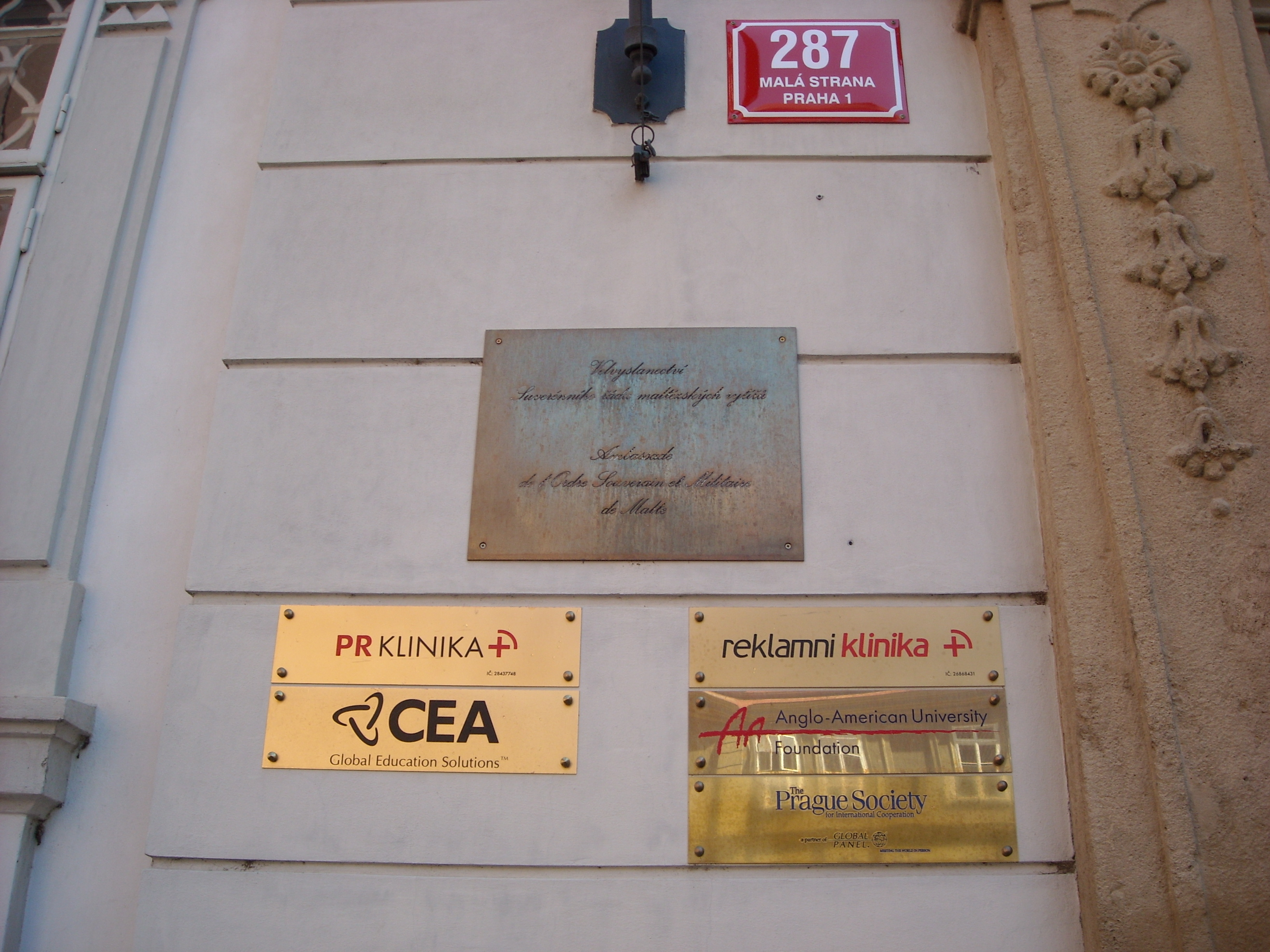 Embassy of Sovereign Military Order of Malta in Czech republic